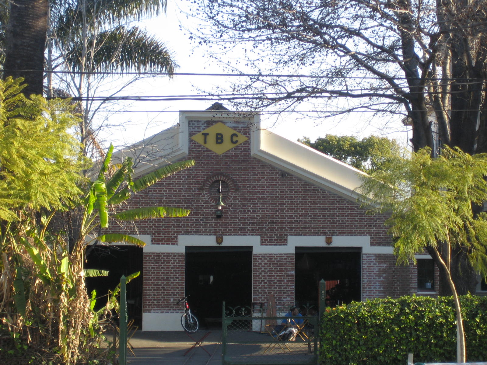 Tigre Boat Club - El Tigre - Buenos Aires - Argentina